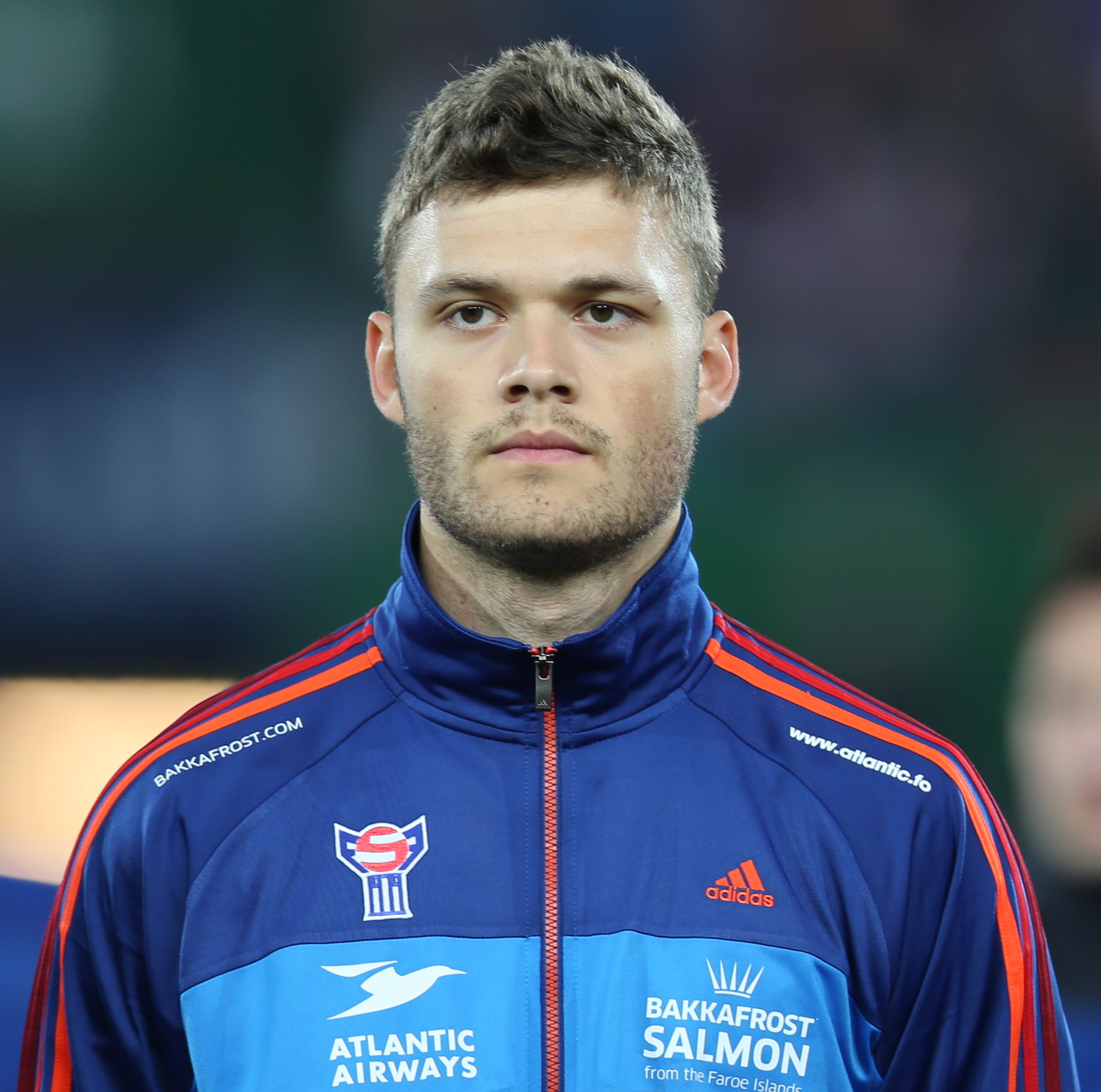 2014 FIFA World Cup qualification (UEFA), Group C: Austrian national football team vs. Faroer Islands national football team (6:0) at 22. March 2013 in the Ernst-Happel-Stadion in Vienna. Here: Rógvi Baldvinsson, defender of the Faroe Islands. The making of this work was supported by Wikimedia Austria. For other files made with the support of Wikimedia Austria, please see the category Supported by Wikimedia Österreich.